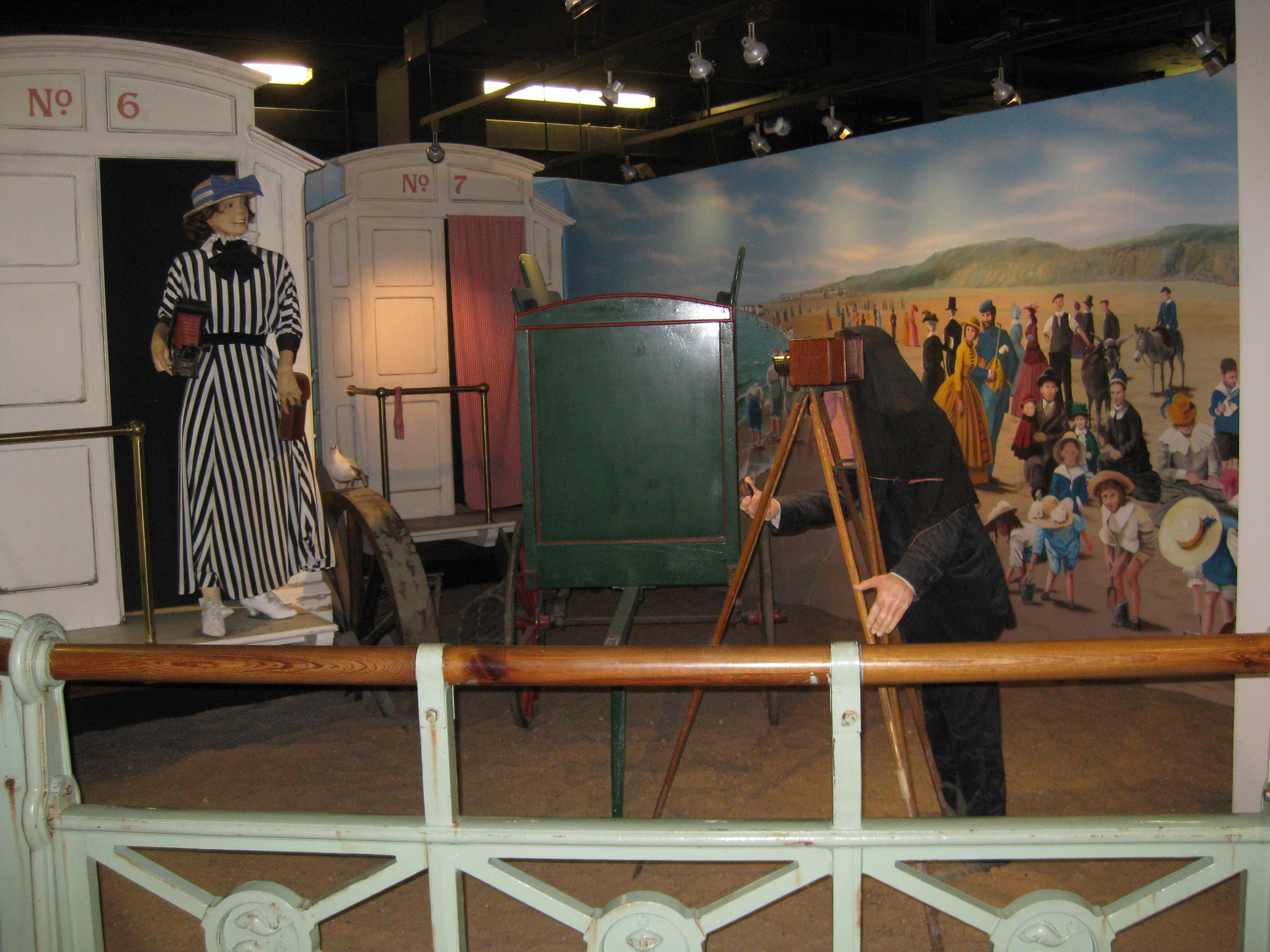 Display in the Kodak Gallery of the National Media Museum, Bradford